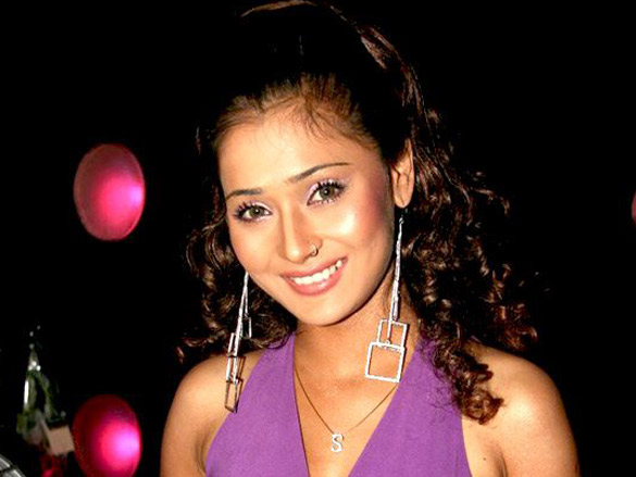 Sara khan bday